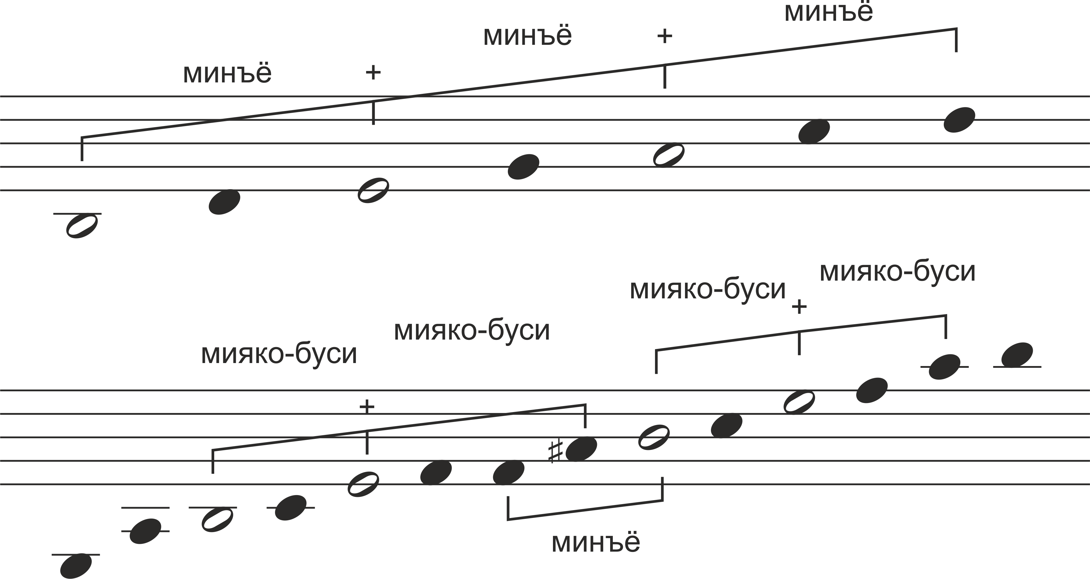 Heike biwa scales per Koizumi (cited by The Ashgate Companion to Japanese Music, p. 83) Top: kudoki, hiroi, yomimono; bottom: shojuu, sanjuu, chuuon